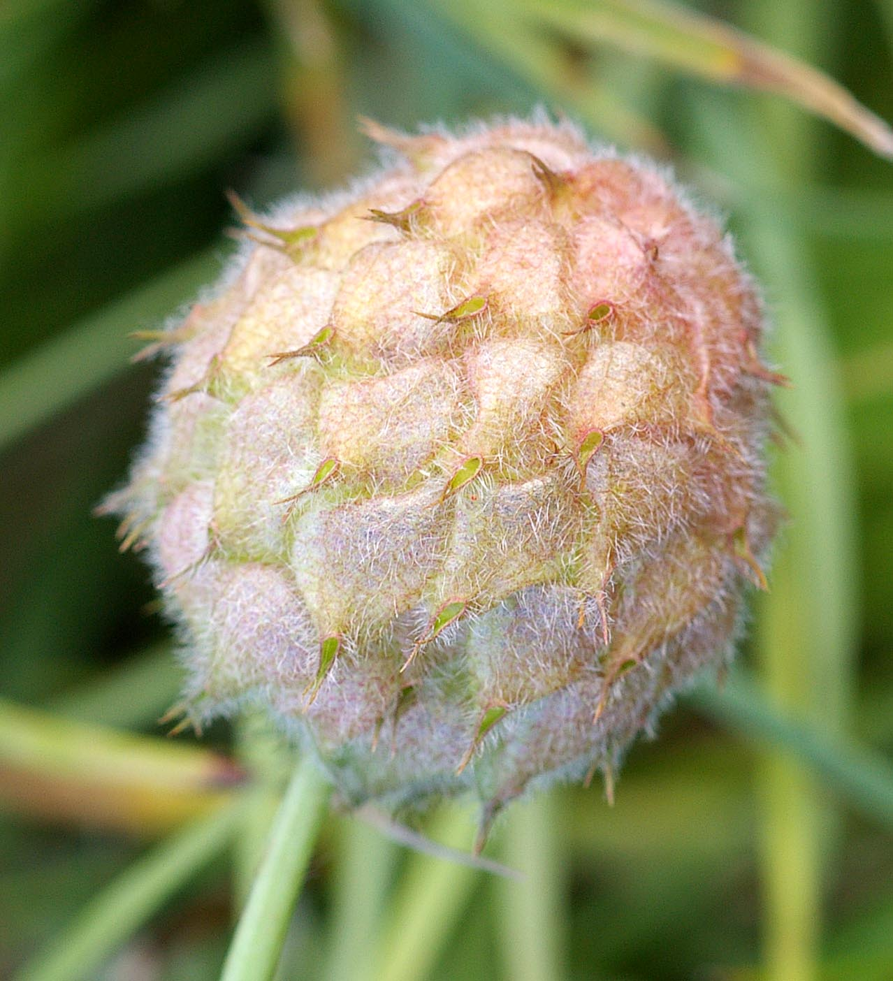 Close-up of fruiting Strawberry clover, Trifolium fragiferum ssp. fragiferum.